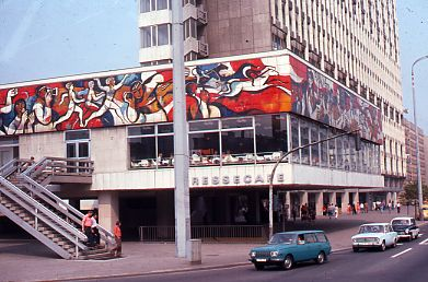 The Press Cafe on the Alexanderplatz, part of an office building given over to publishing enterprises, 1977. The murals, which have now been covered over, publicized the Marxist version of the press. Other information Photo by George Garrigues.